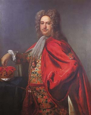 Painting of